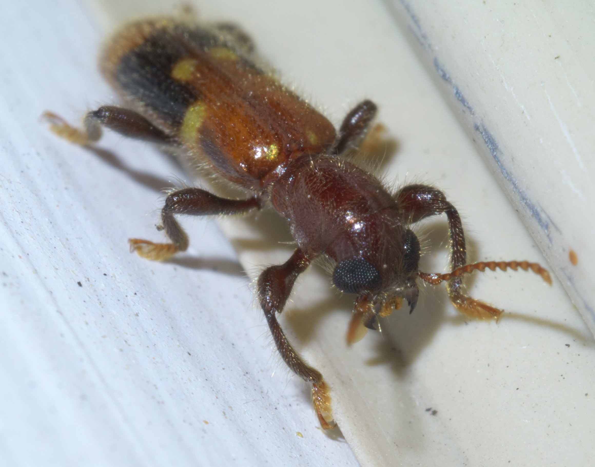 Priocera castanea, Family: Checkered Beetles, ID Confidence: 98